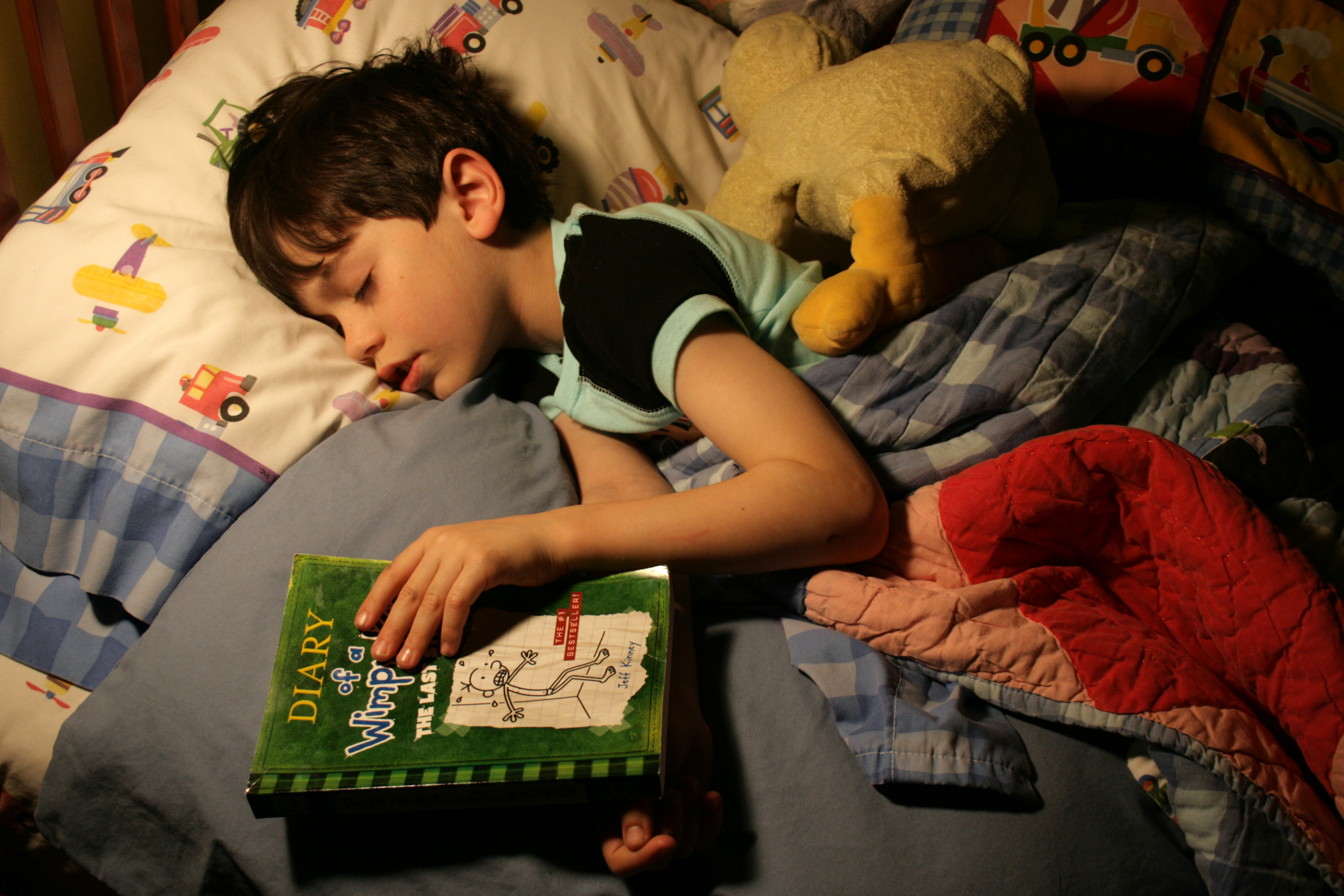 Six year old boy reading "Diary of a Wimpy Kid: The Last Straw" License on Flickr (2011-01-07): CC-BY-2.0 Flickr tags: diary, wimpy, kid, book, read, bed, boy, hold